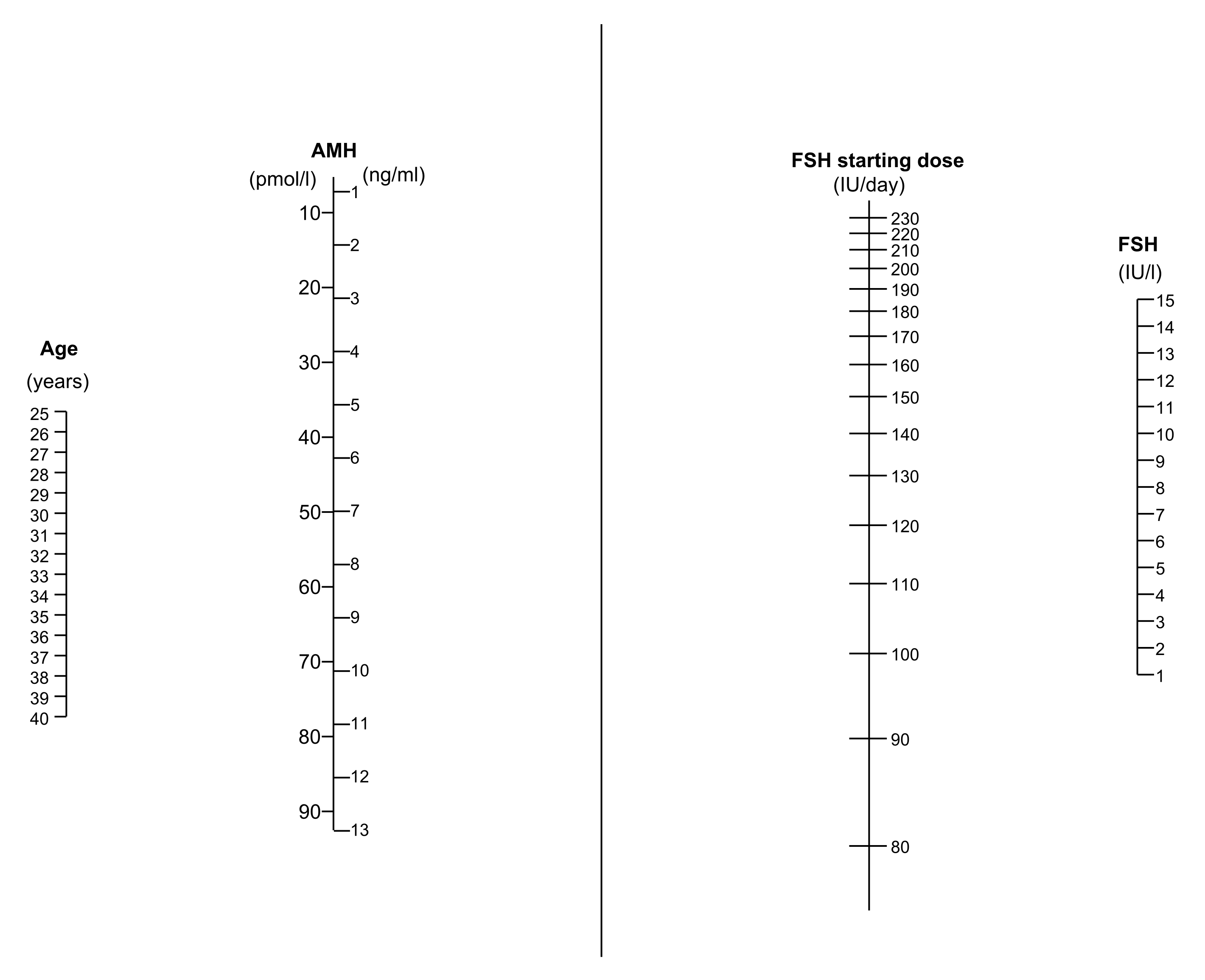 Dosage in ovarian hyperstimulation of FSH as calculated from age, AMH and pre-treatment FSH level.